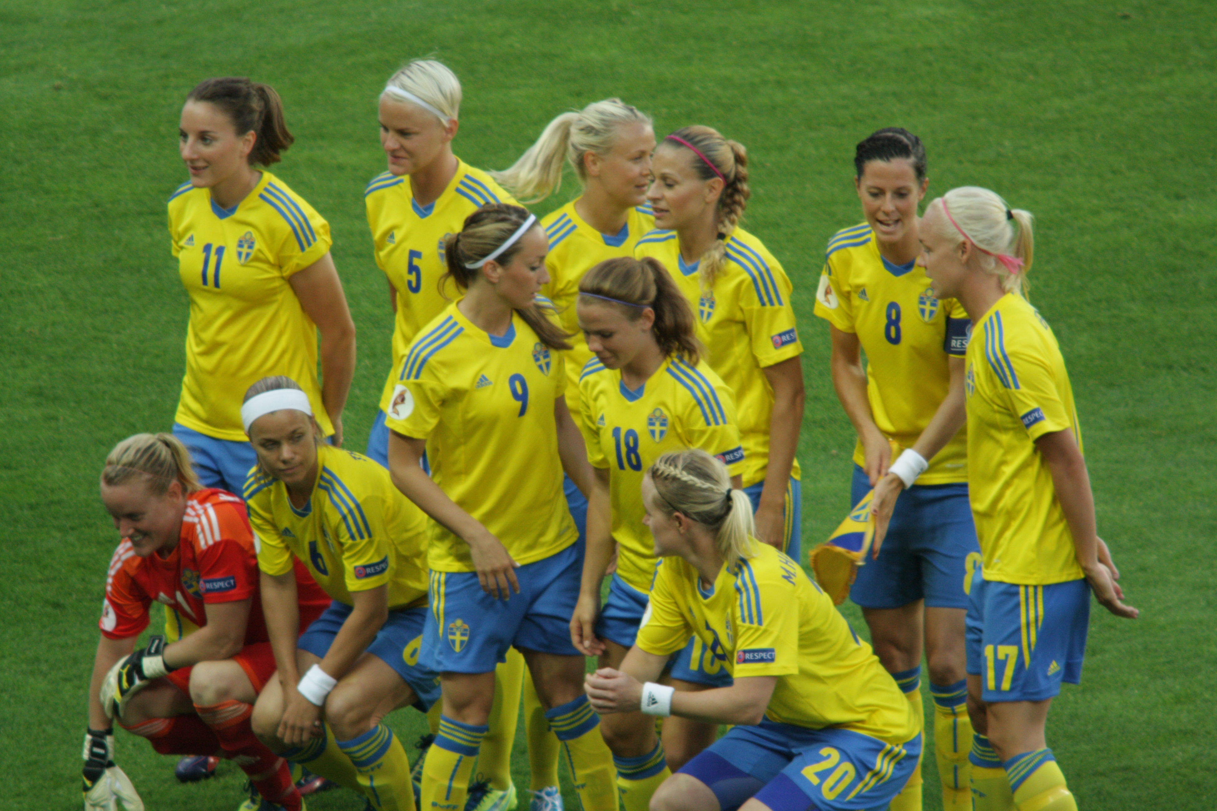 Swedish ladies national football team before the semi final against Germany, Göteborg, July 24, 2013. 11 Antonia Göransson, 5 Nilla Fischer, 14 Josefine Öqvist, 2 Charlotte Rohlin, 8 Lotta Schelin, 17 Caroline Seger, 1 Kristin Hammarström, 6 Sara Thunebro, 9 Kosovare Asllani, 18 Jessica Samuelsson, 20 Marie Hammarström